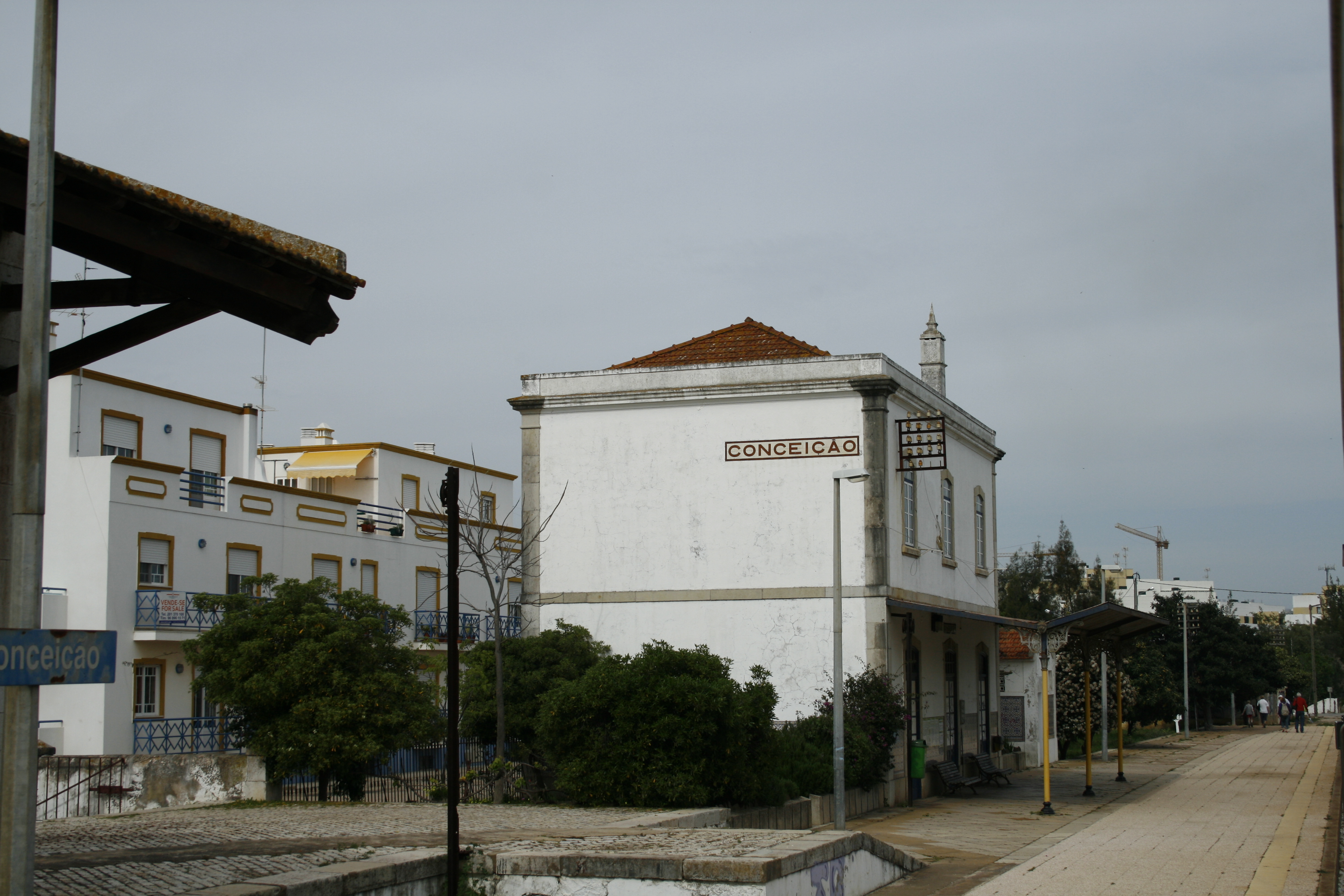 Conceição train station, in the Algarve Line, in Portugal.